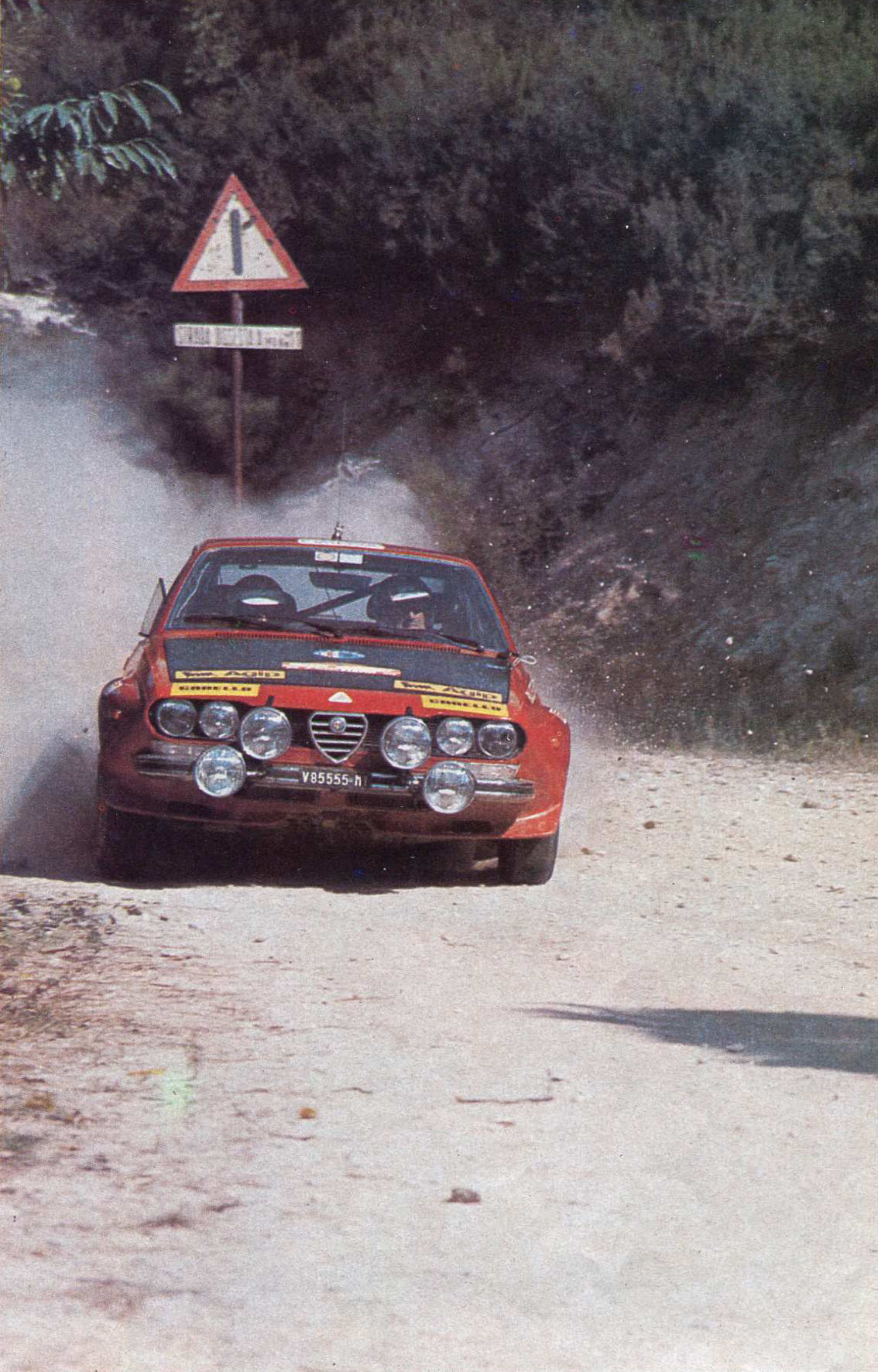 Amilcare Ballestrieri and co-driver Mauro Mannini on an Alfa Romeo Alfetta GT (Group 2) at the 1975 Rallye Sanremo.